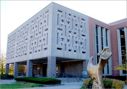 Ohio Wesleyan University Library